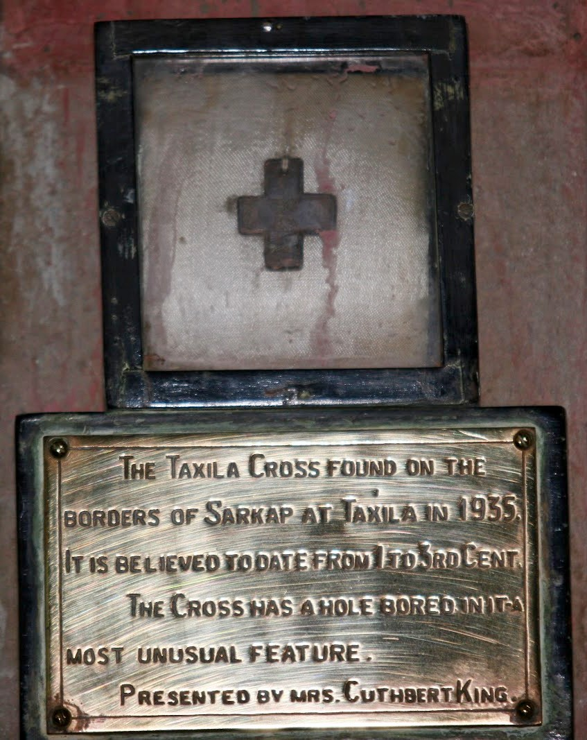 A photo taken by Salman Rashid of the 'Taxila Cross' placed in Lahore Cathedral, Pakistan.